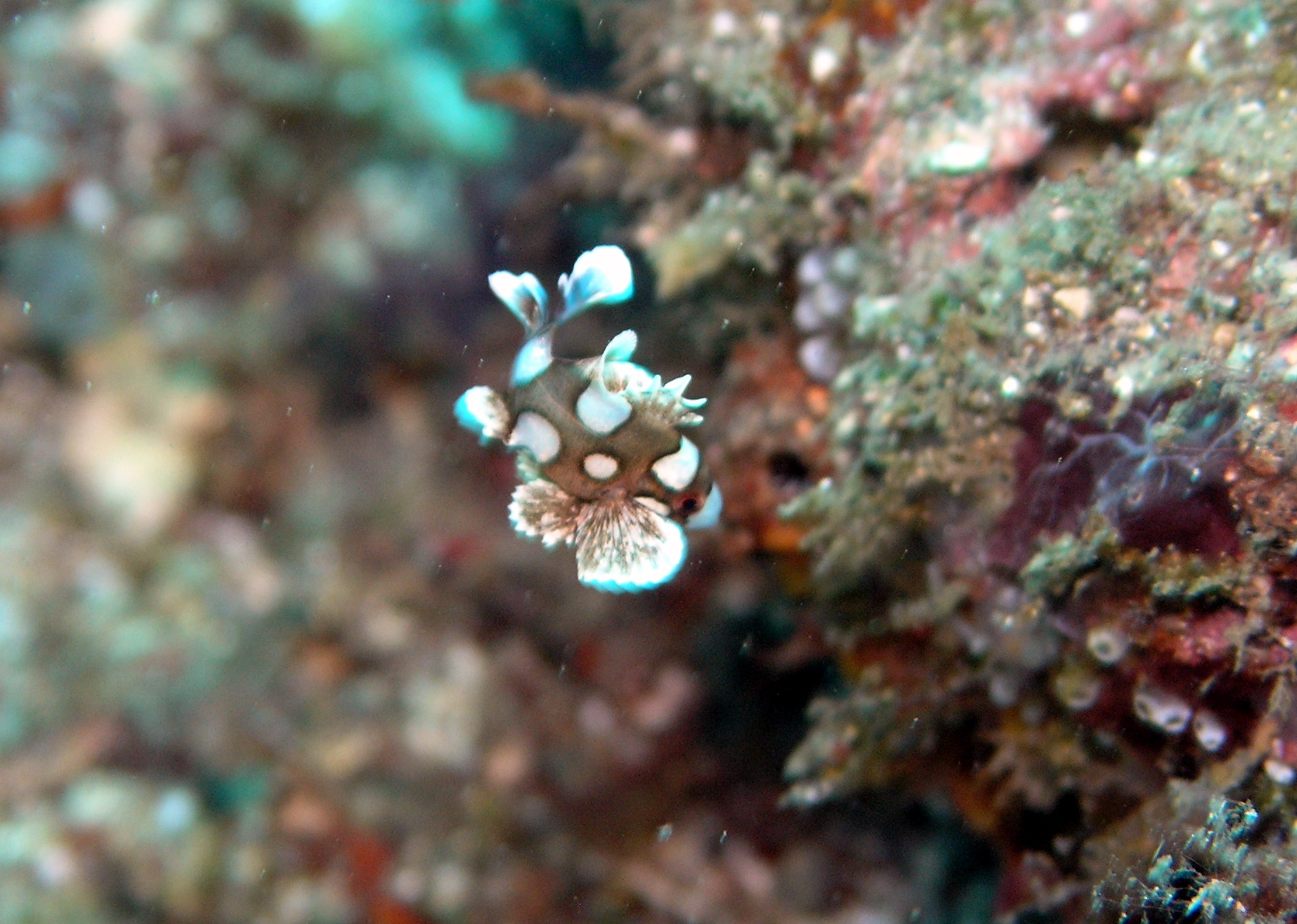 Image of Harlequin sweetlips. Plectorhinchus chaetodonoides. Taken at Bunaken Island, North Sulawesi, Indonesia.